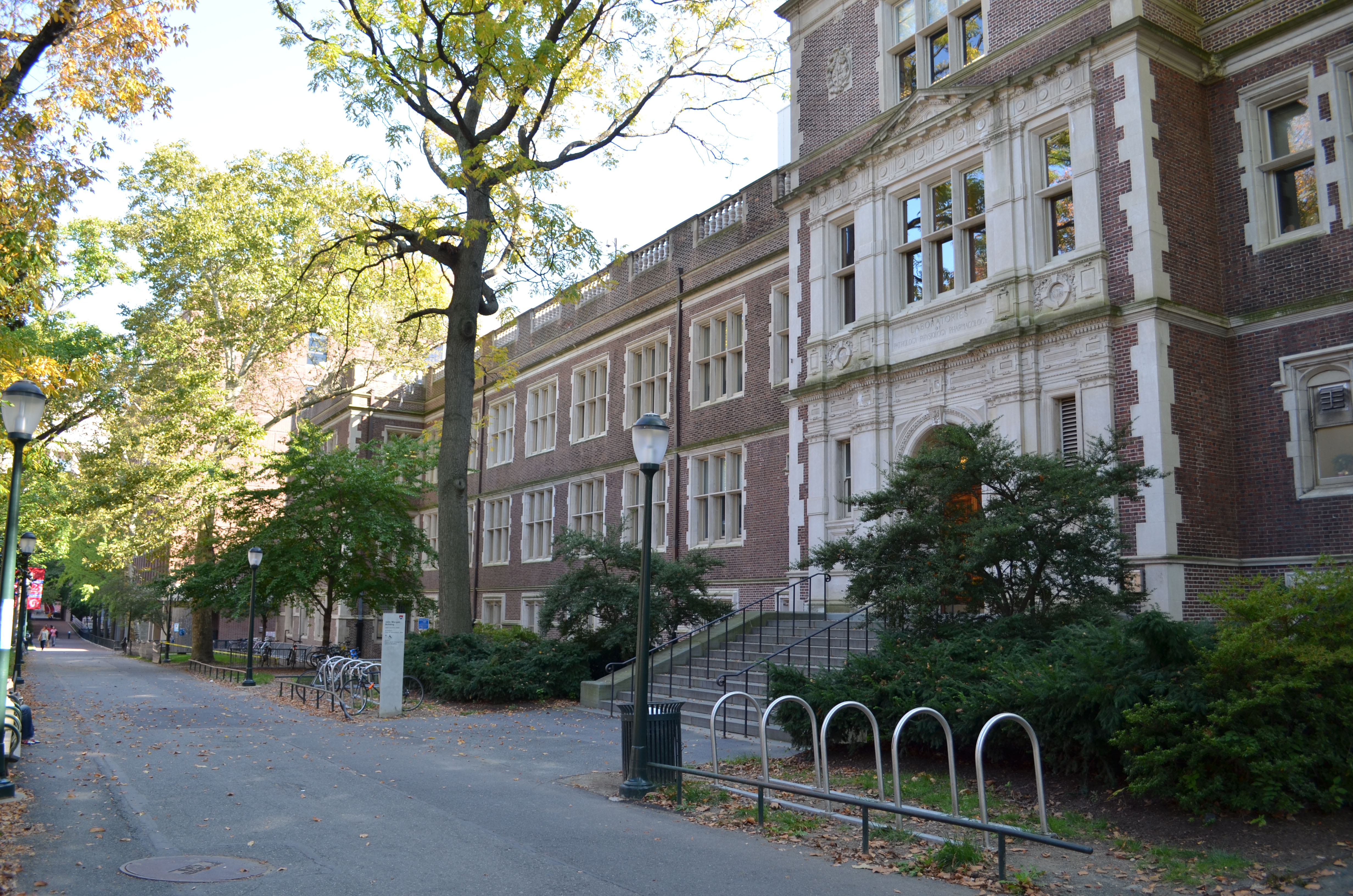 This is a photo of the Johnson Pavilion and Hamilton Walk of the Perelman School of Medicine at the University of Pennsylvania in Philadelphia, PA, USA.